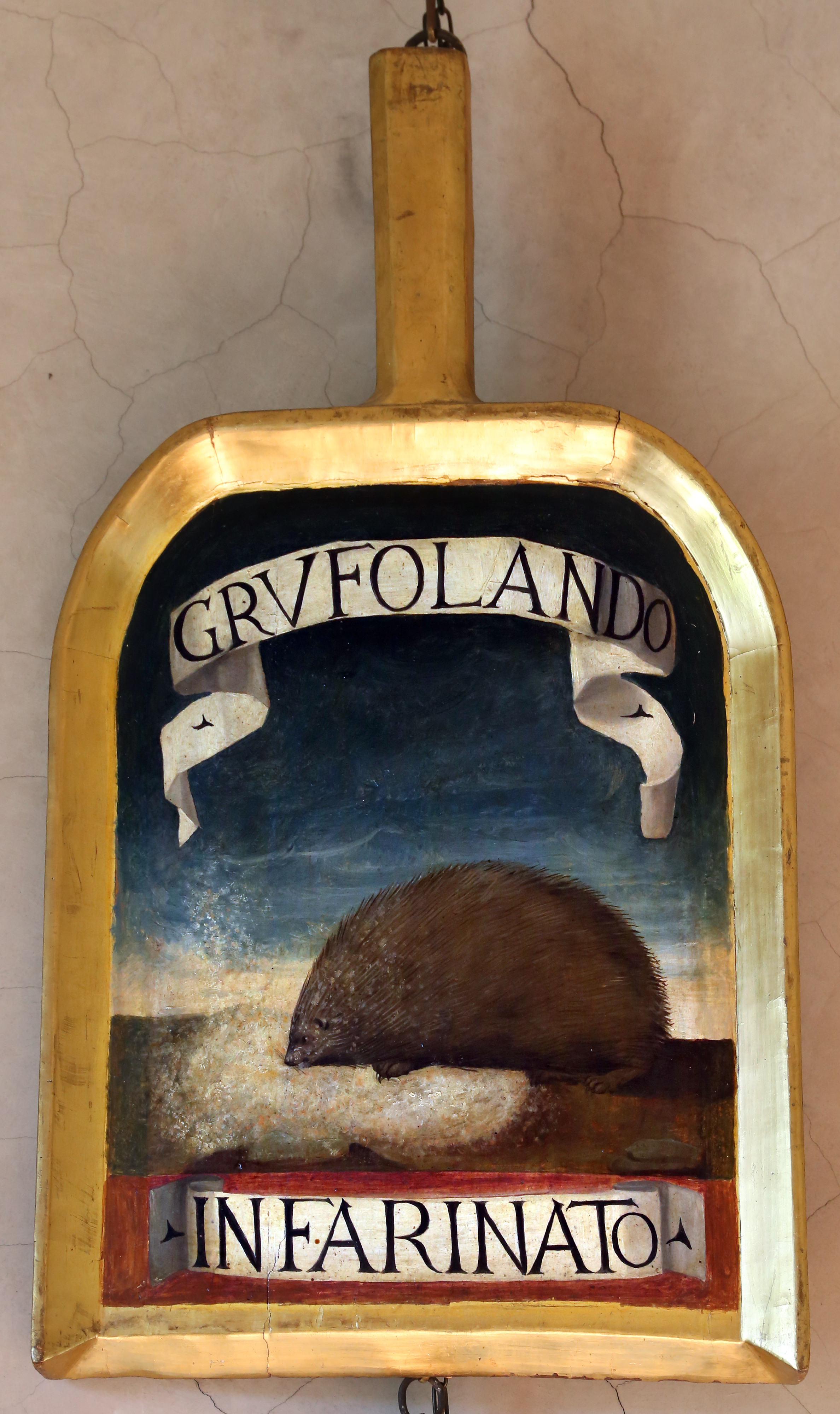 Shovels of Accademici della Crusca